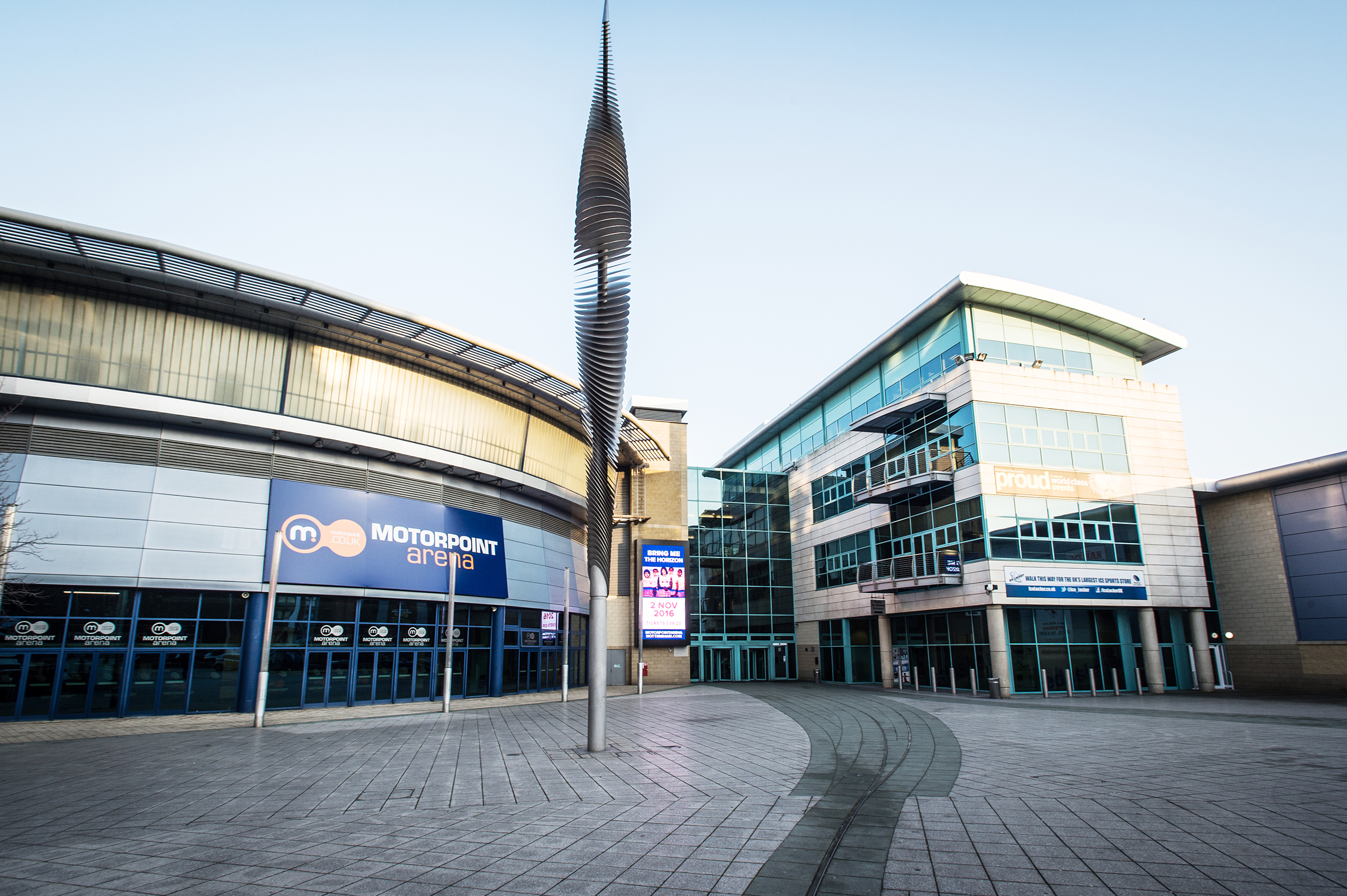 Motorpoint Arena Nottingham